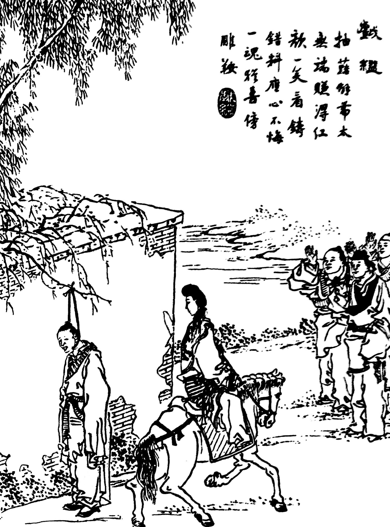 Illustration of the short story "A Prank" collected in Strange Tales from a Chinese Studio (1740) by Pu Songling.